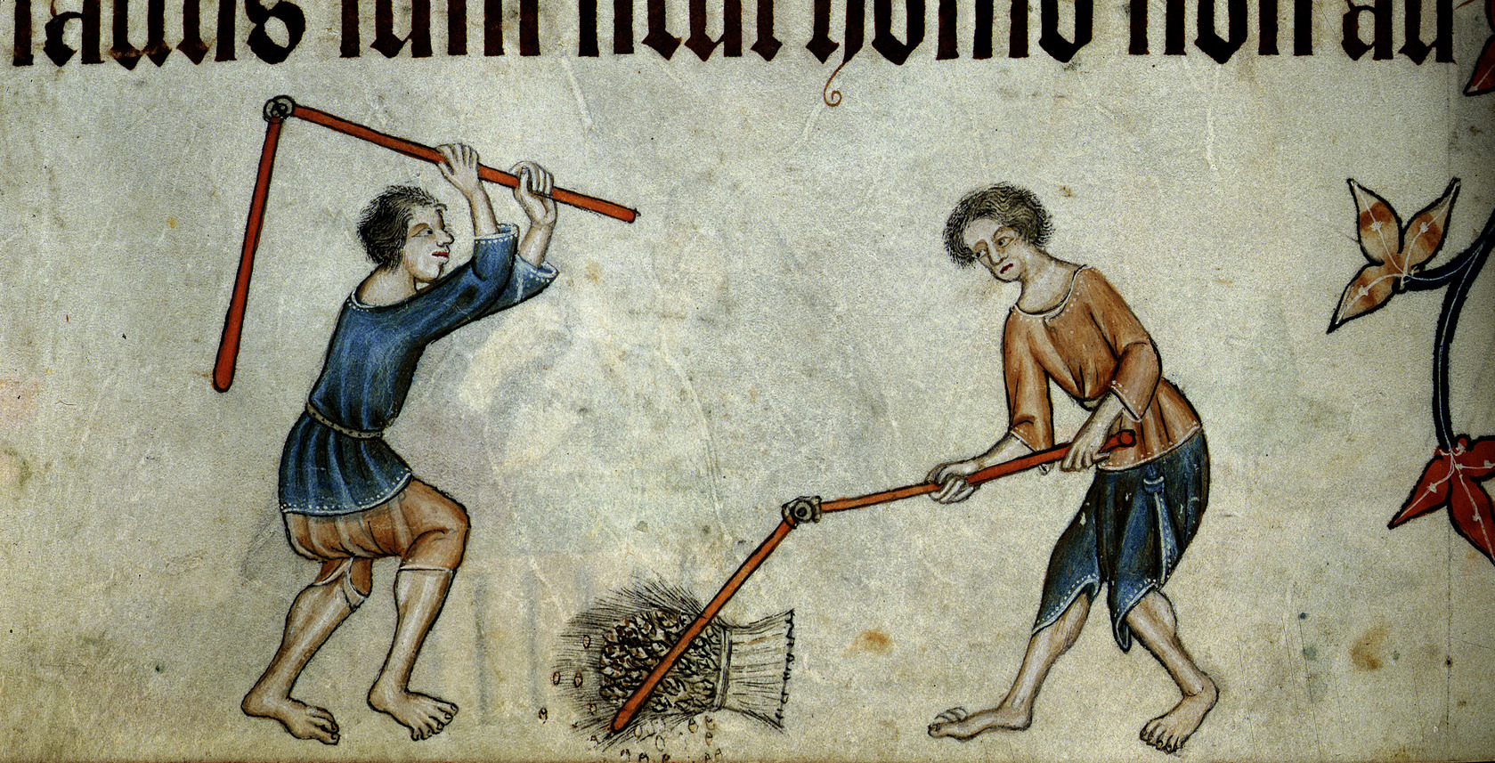 Two men threshing sheaf [Lower margin] Marginal drawing of two men threshing a bound sheaf with flails